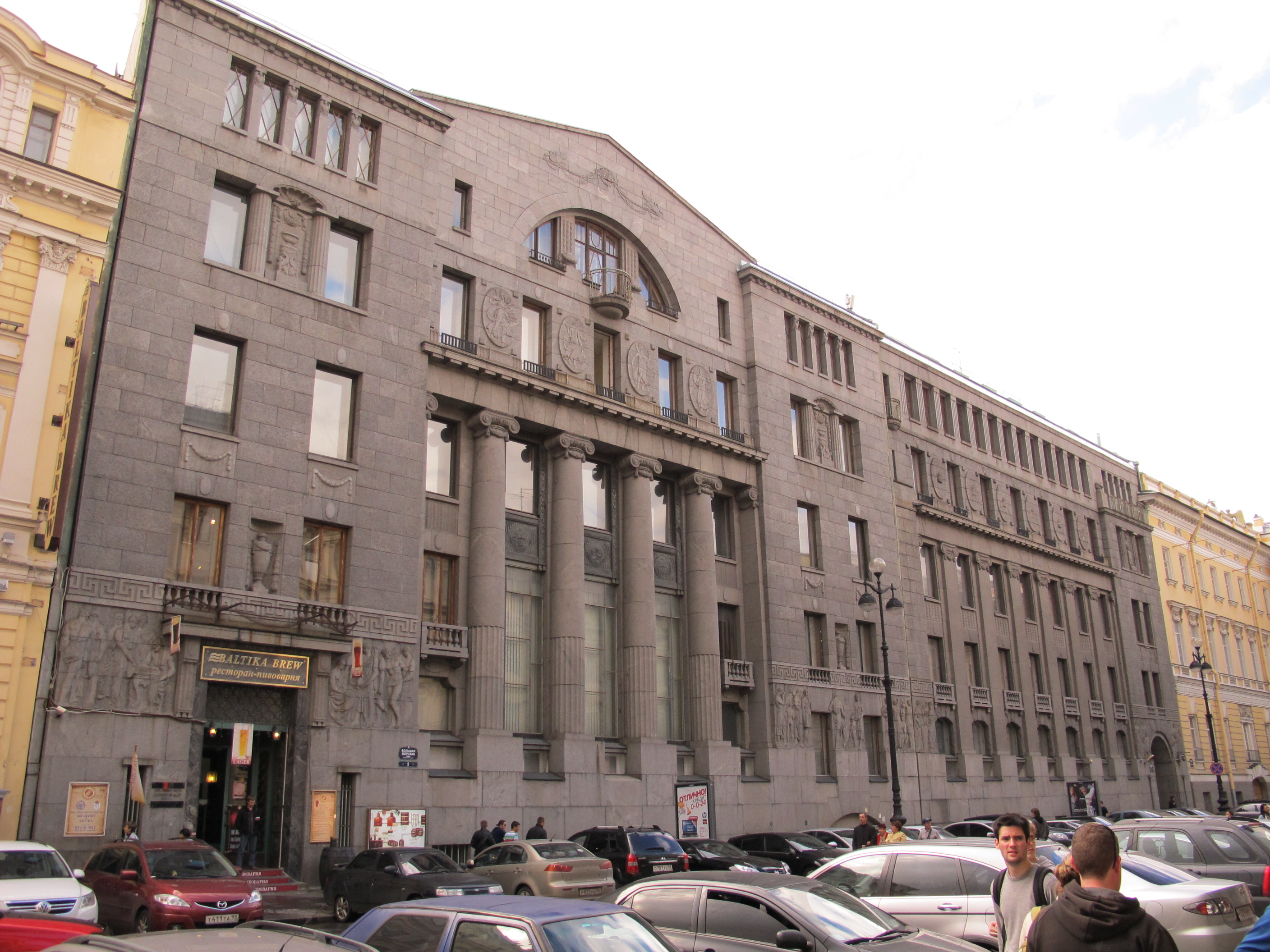 Azov-Don Commercial Bank Building